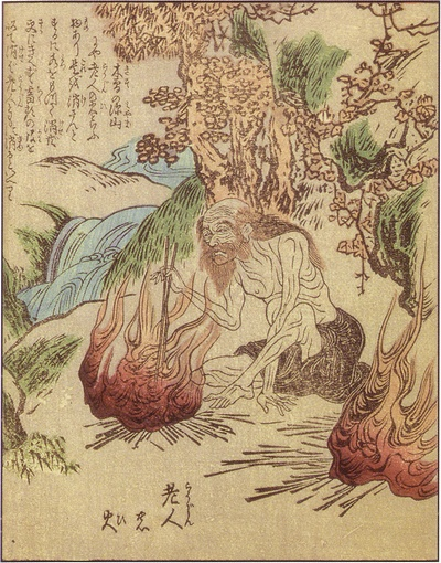 Rōjin-no-hi (老人火) from the Ehon Hyaku Monogatari (絵本百物語)